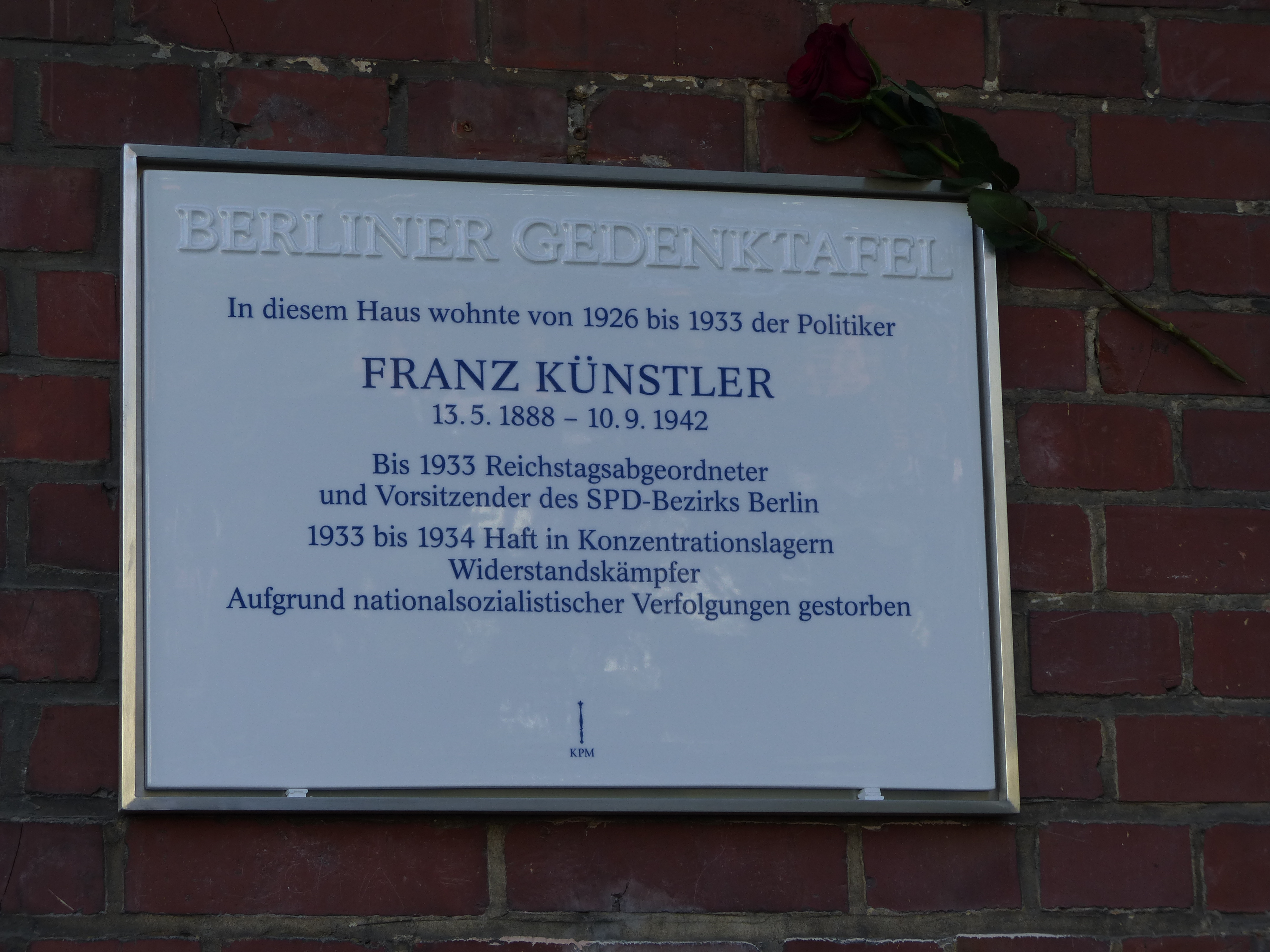 Berlin memorial plaque, Franz Künstler, Weigandufer 16, Berlin-Neukölln, Germany